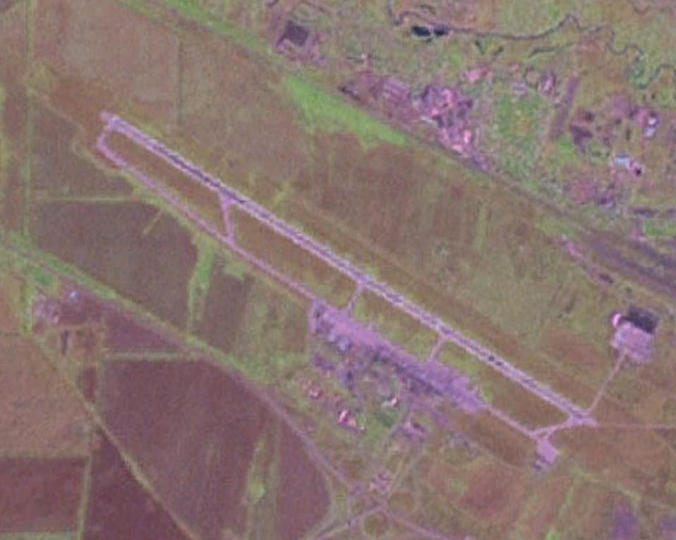 Mineralnyye Vody airfield, former Soviet Union. Image from NASA World Wind.